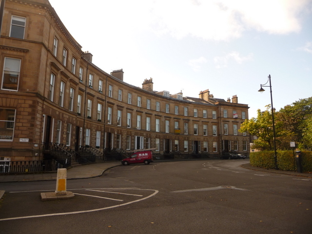 Glasgow: south side of Park Circus A gently curving terrace of town houses, facing the small park in the centre of Park Circus.